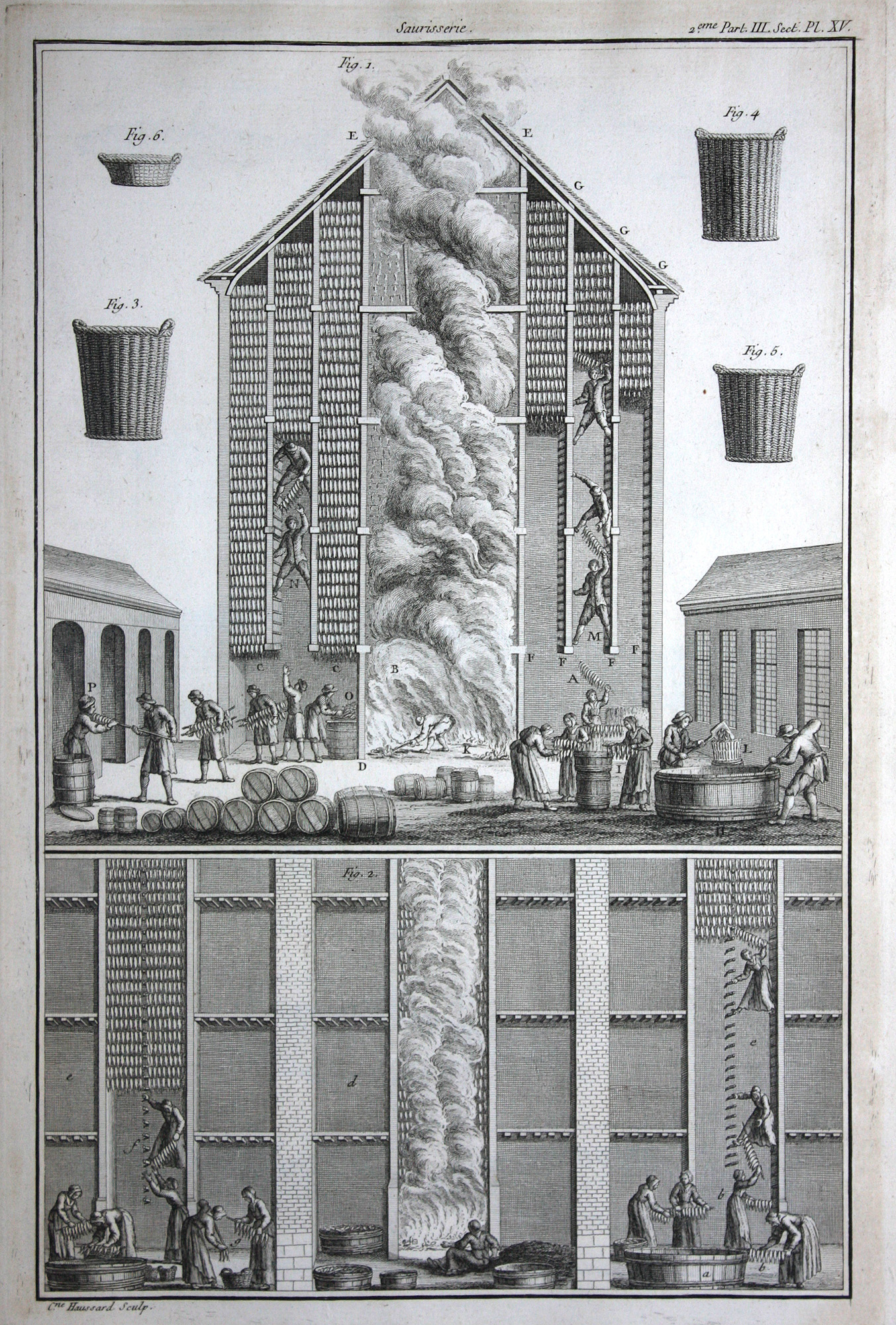 No known copyright restrictions. Please credit UBC Library as the image source. For more information, see Alternative Title: Part 2, Section 3, Plate 15 Description: Cette Planche est destinée à faire voir les préparations qu'on donne aux Harengs, nommes les uns Sauris, les autres Bouffis. Figure 1. Une grande Coresse ou Saurisserie; K, le Maître Saureur qui entretient le feu; H, des Saureurs qui tirent les Harengs de la saumure & les mettent égoutter dans des corbeilles L; I, des femmes qui les enfilent dans des baguettes qu'on nomme Ainettes, & les présentent à des hommes M qui les pendent. En N, sont d'autres Ouvriers qui les dépendent; O, est celui qui les visite, qui rebute les défectueux, & qui les compte; on les passe ensuite au Maître Tonnelier P, qui les paque dans des fûts romains. Figure 2. Coresse moins grande pour faire des Harangs bouffis ou Craquelots: toutes ces operations, qui différent peu de celles qu'on fait pour le Hareng saur, s'exécutent par des femmes, qu'on nomme Craquelotieres, (pag. 413 & 414). Figure 3, 4, 5 & 6. Paniers de différentes grandeurs, dans lesquels on met des Harengs bouffis pour les transporter aux endroits où l'on en fait la vente. Creator: Henri-Louis Duhamel Du Monceau; Jean-Louis De La Marre Date Created: 1769-1782 Source: Traité général des pesches: et histoire des poisons qu'elles fournissent, tant pour la subsistance des hommes, que pour plusieurs autres usages qui ont rapport aux arts et au commerce. Permanent URL